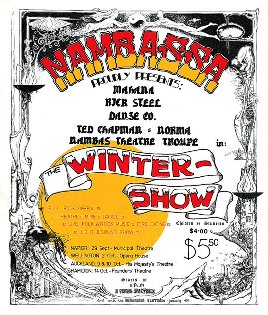 These photoes were taken by the official Nambassa photographer at the 1978 Nambassa Winter Show in New Zealand. Uploaded by Mombas 09:44, 3 May 2007 (UTC) Summary Terms of Use: 1/ All users of this image are required to attribute this work to "Nambassa Trust and Peter Terry" and the URL: " " is to accompany all use. 2/ Attribution. You must attribute the work in the manner specified by the author or licensor. 3/ For any reuse or distribution, you must make clear to others the license terms of this work. Statement by Nambassa Trust and Peter Terry